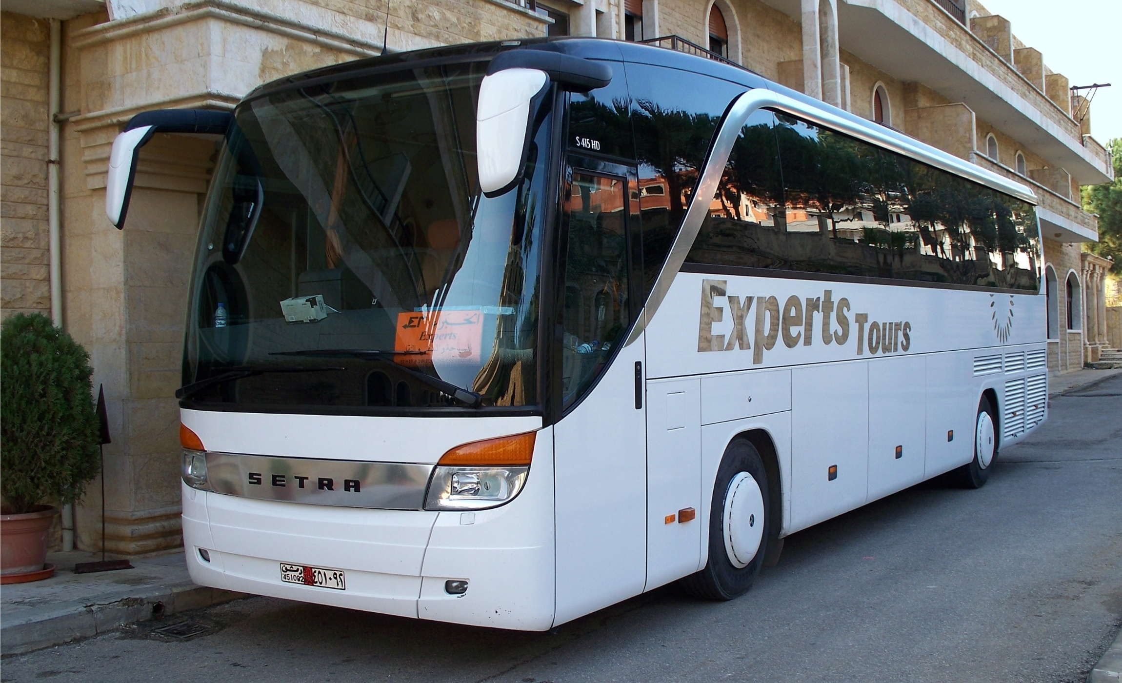 A Setra bus in Syria.